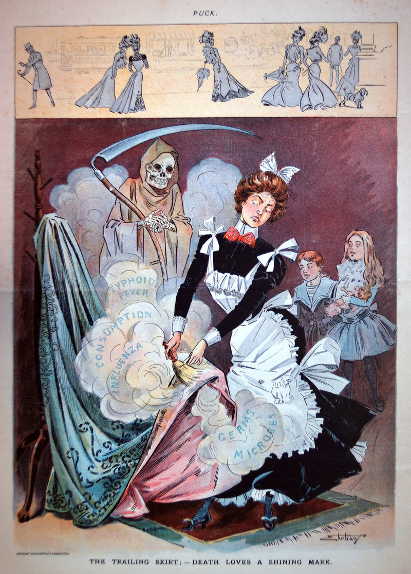 "The Trailing Skirt - Death Loves a Shining Mark." American satirical cartoon featuring the Grim Reaper following a maid brushing off a fashionable trailing skirt. The skirt, hung on a rack, is shown as a carrier of germs and microbes, including those causing typhoid fever, consumption, influenza. First published in Puck, August 8, 1900.